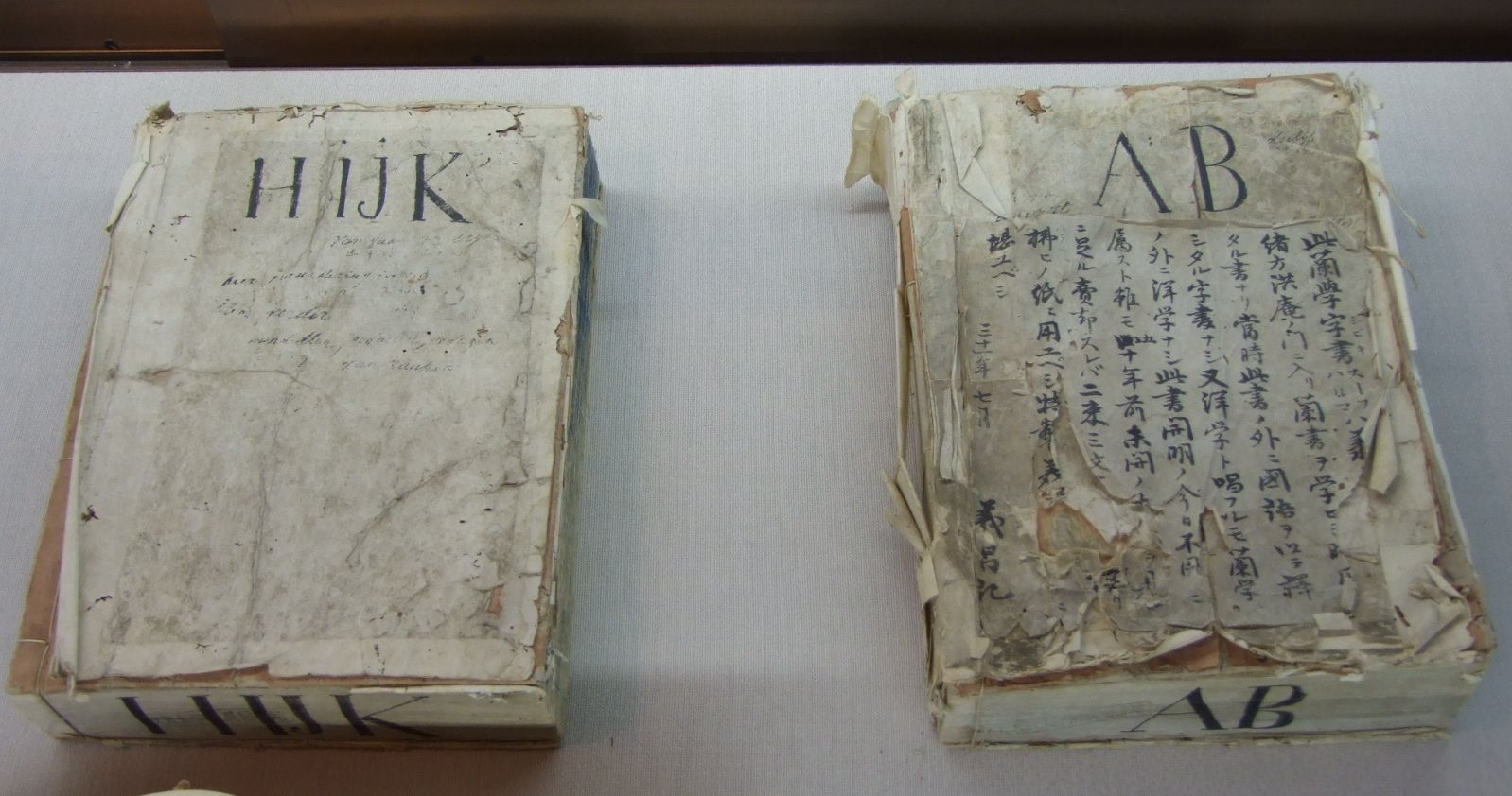 Doeff-Halma_Dictionary001